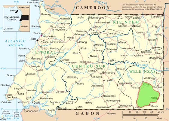 Altos de Nsork National Park (area in green), (area in green), Equatorial Guinea, Wele-NzasProvince